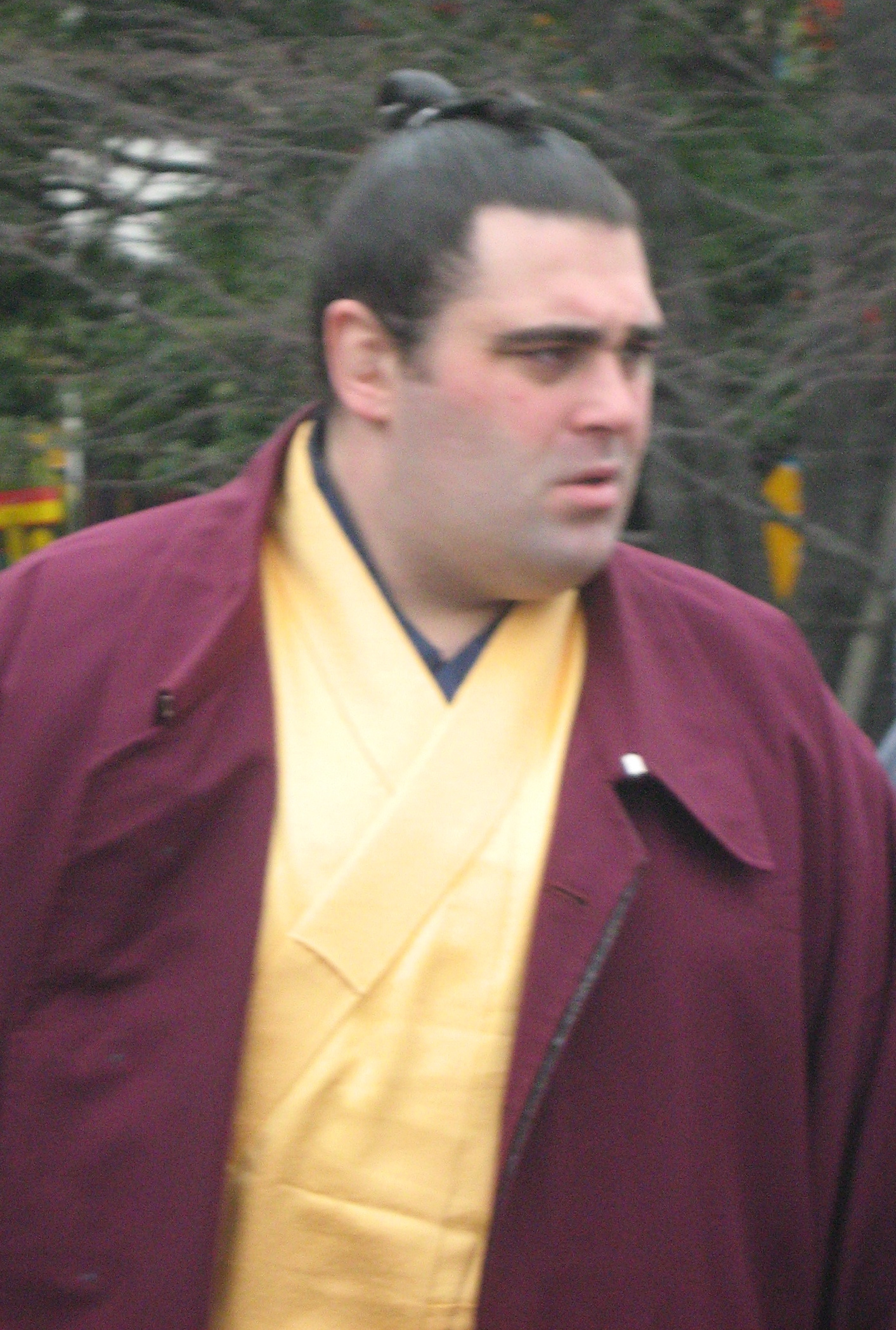 This is a photograph I took at a recent sumo tournament that I release the rights of. User:FourTildes 11:05, 31 May 2008 . . FourTildes . . 1,413×2,098 (1.27 MB)